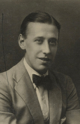 Photograph of Leslie Heward taken and published as a postcard while he was Director of the Cape Town Orchestra between 1924 and 1927. Photograph by Cape Argus Studio in Cape Town, South Africa.